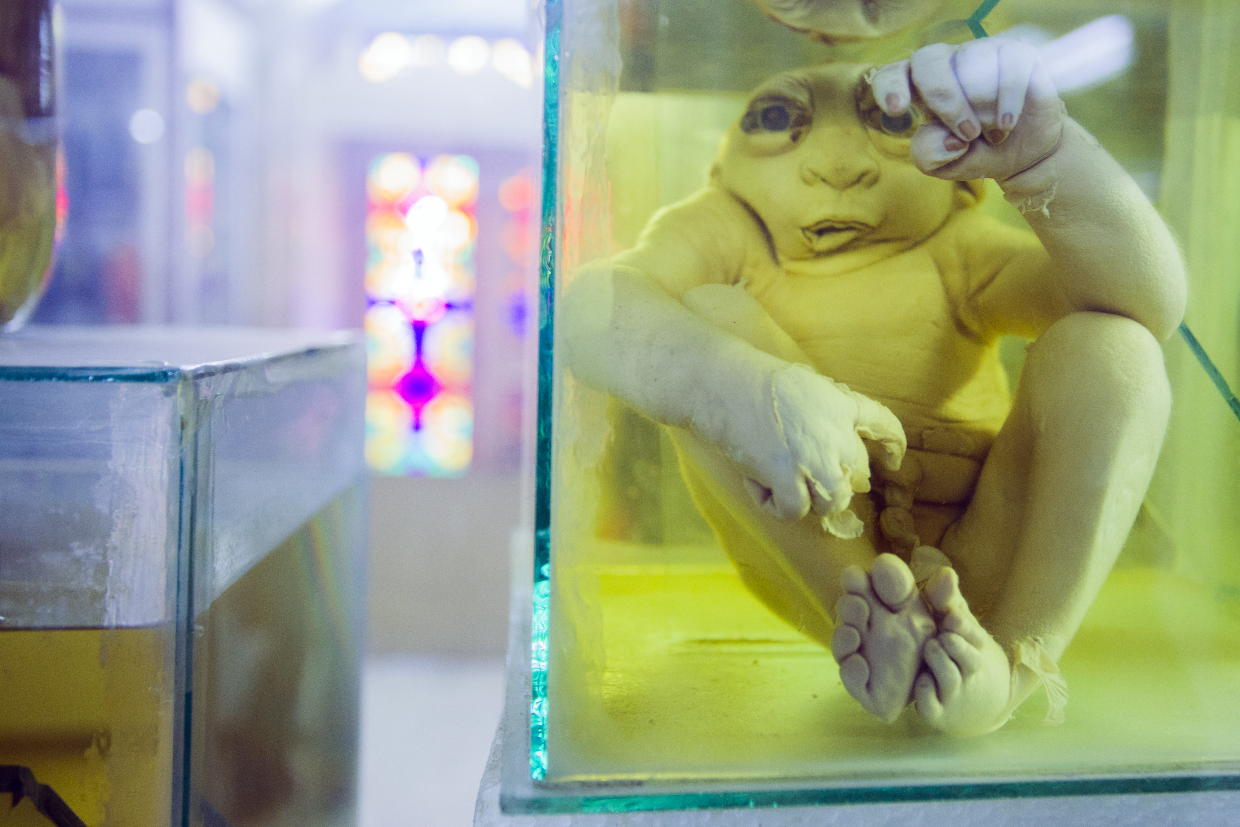 The Natural History Museum of Isfahan is located in a building from the Timurid era in the 15th century. The building includes some large halls and a veranda, which are decorated by muqarnas and stucco.